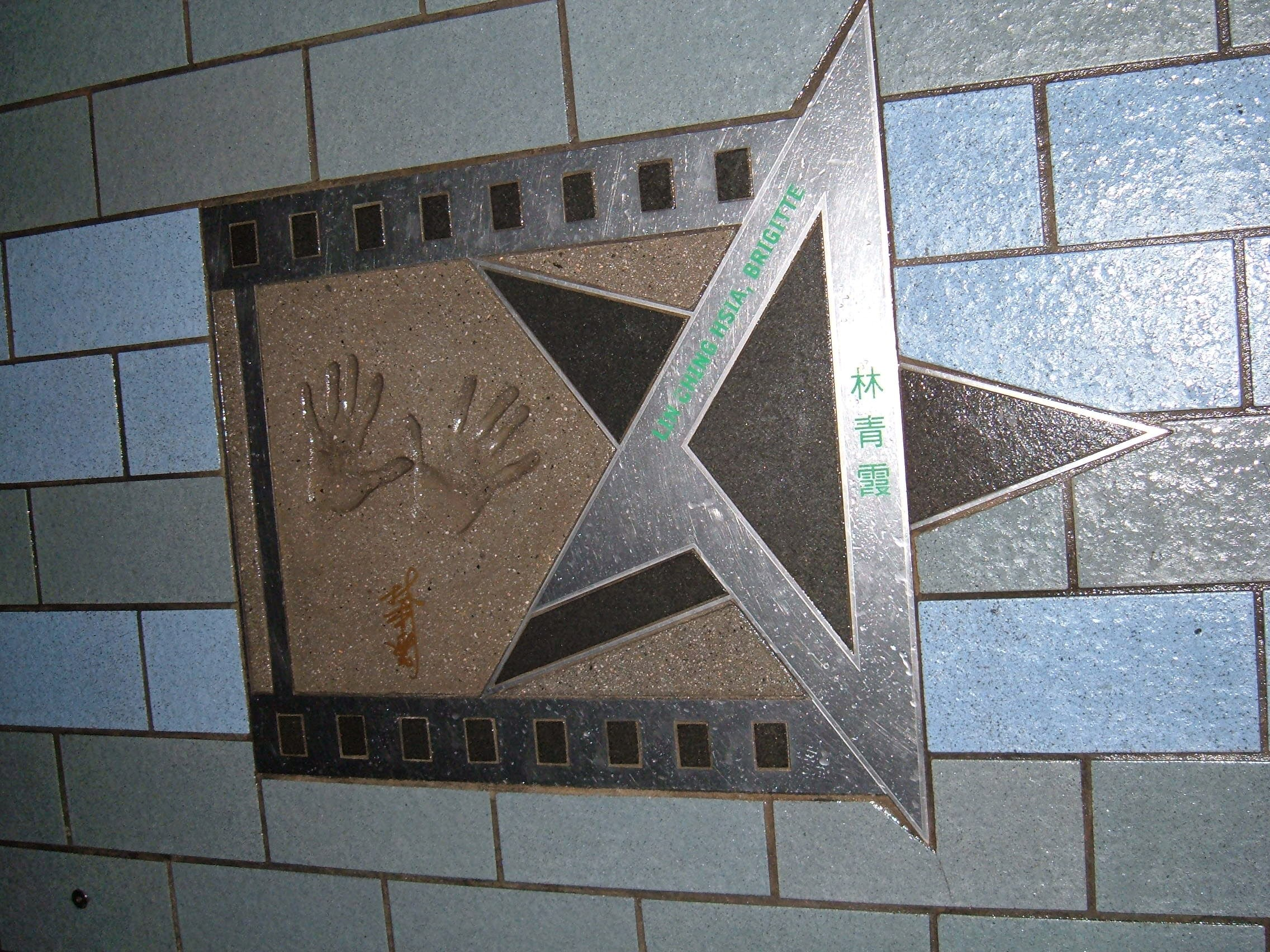 Star, hand prints and autograph of Brigitte Lin Ching Hsia on the Avenue of Stars in Hong Kong.